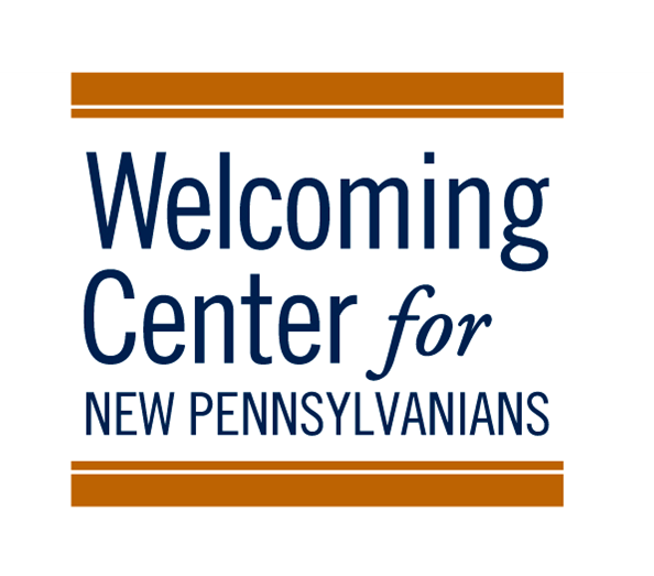 Welcoming Center for New Pennsylvanians logo.